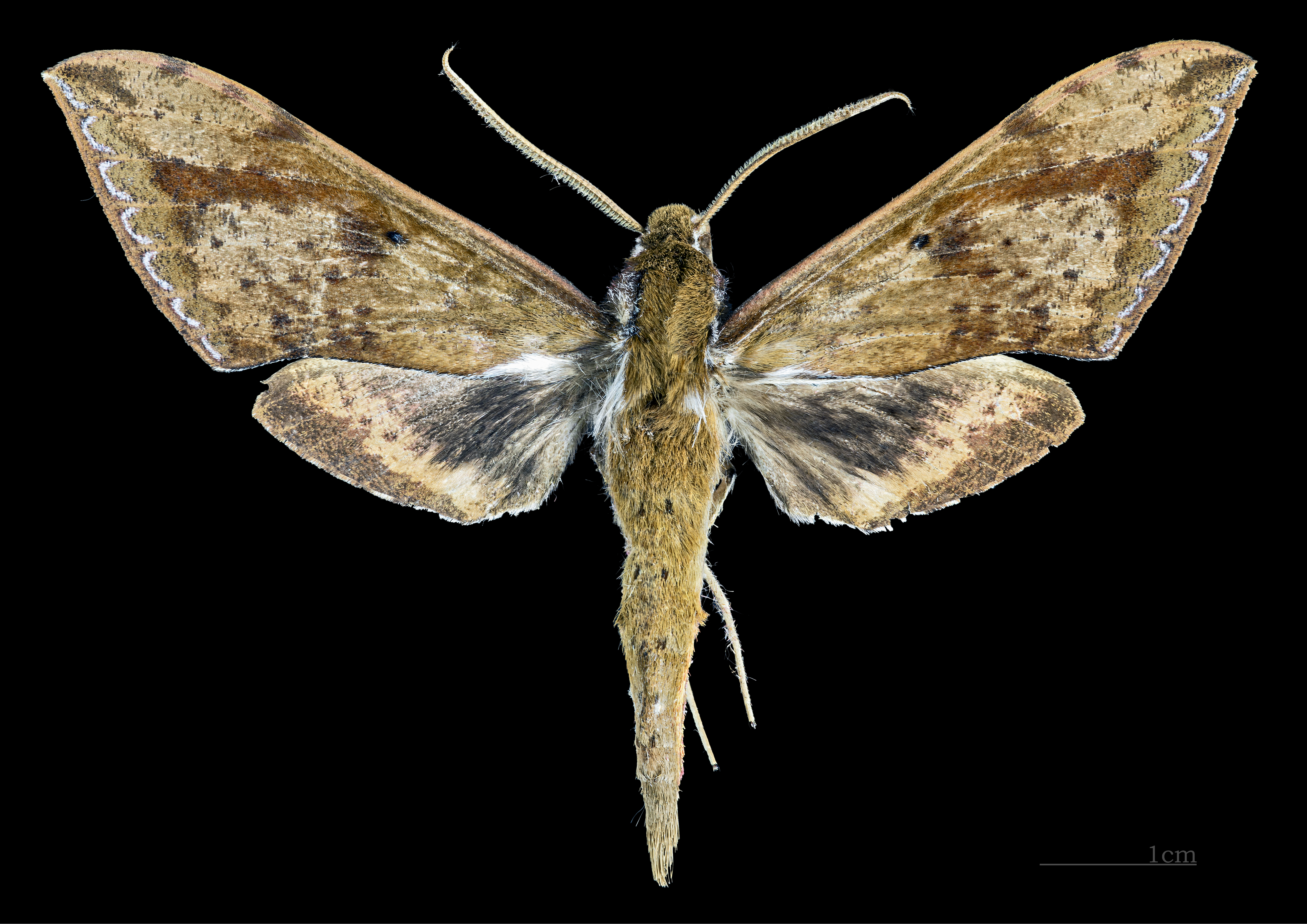 Rhagastis lunata - Dorsal side Collection of the Mathematician Laurent Schwartz